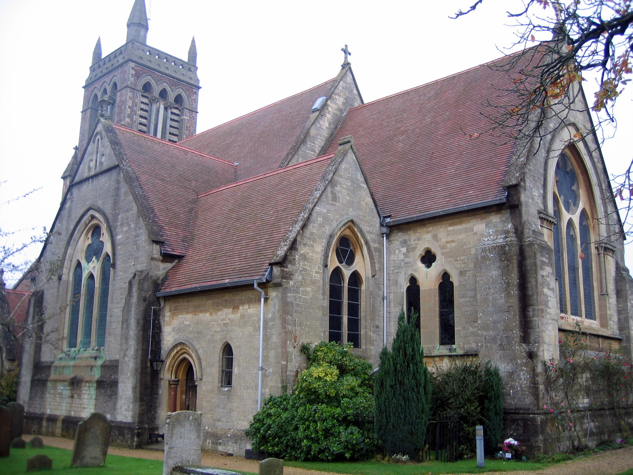 Front view of St Michaels Church, Easthampstead, Berkshire. UK